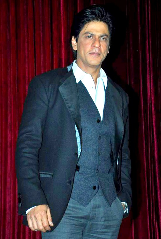 SRK at Yash Chopra's Interview celebrating his 80th Birthday at Yash Raj Studios.